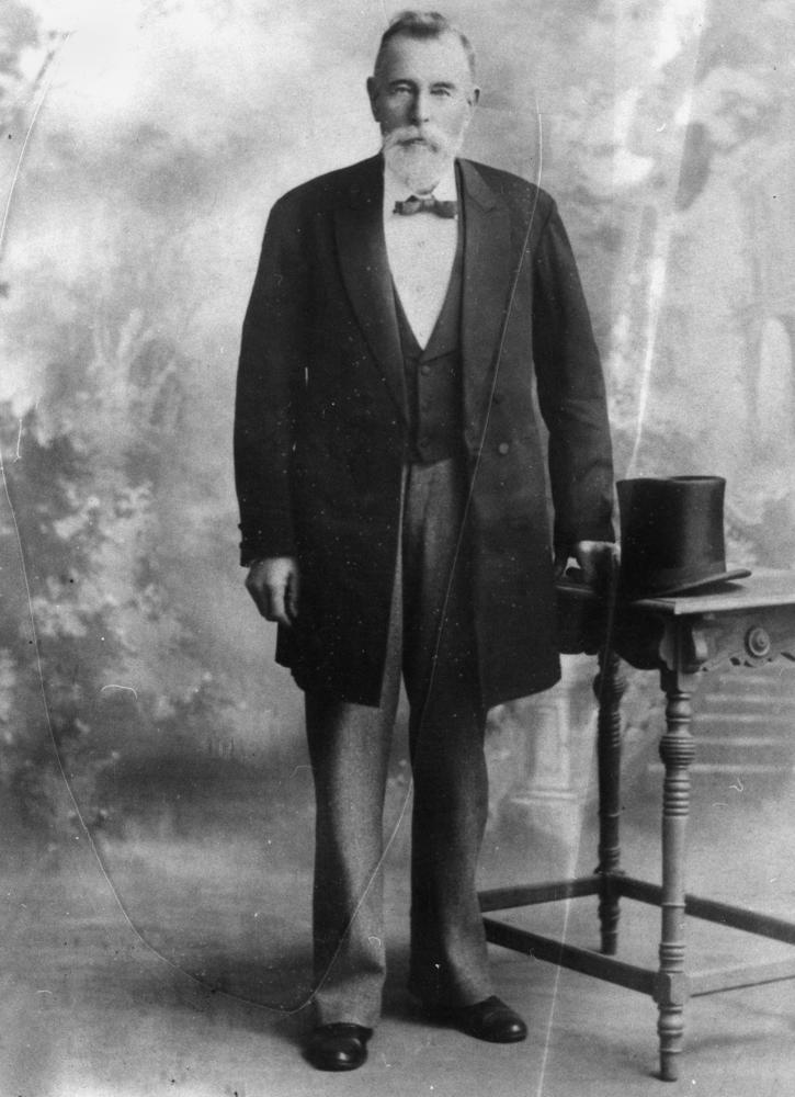 George Ambrose White. White was the proprietor of Victoria Farm, Melrose, Tinana. He donated money for the Maryborough Town Hall in 1906 and also money for the City Baths. Inscription with photograph reads: Chairman 1885-1888.